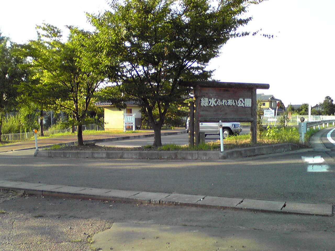 The park which was developed land for in the remains of Niida Station, Niigata Kotsu Railway which became the abolished line on April 5, 1999. This station became the abandoned station on August 1, 1993.